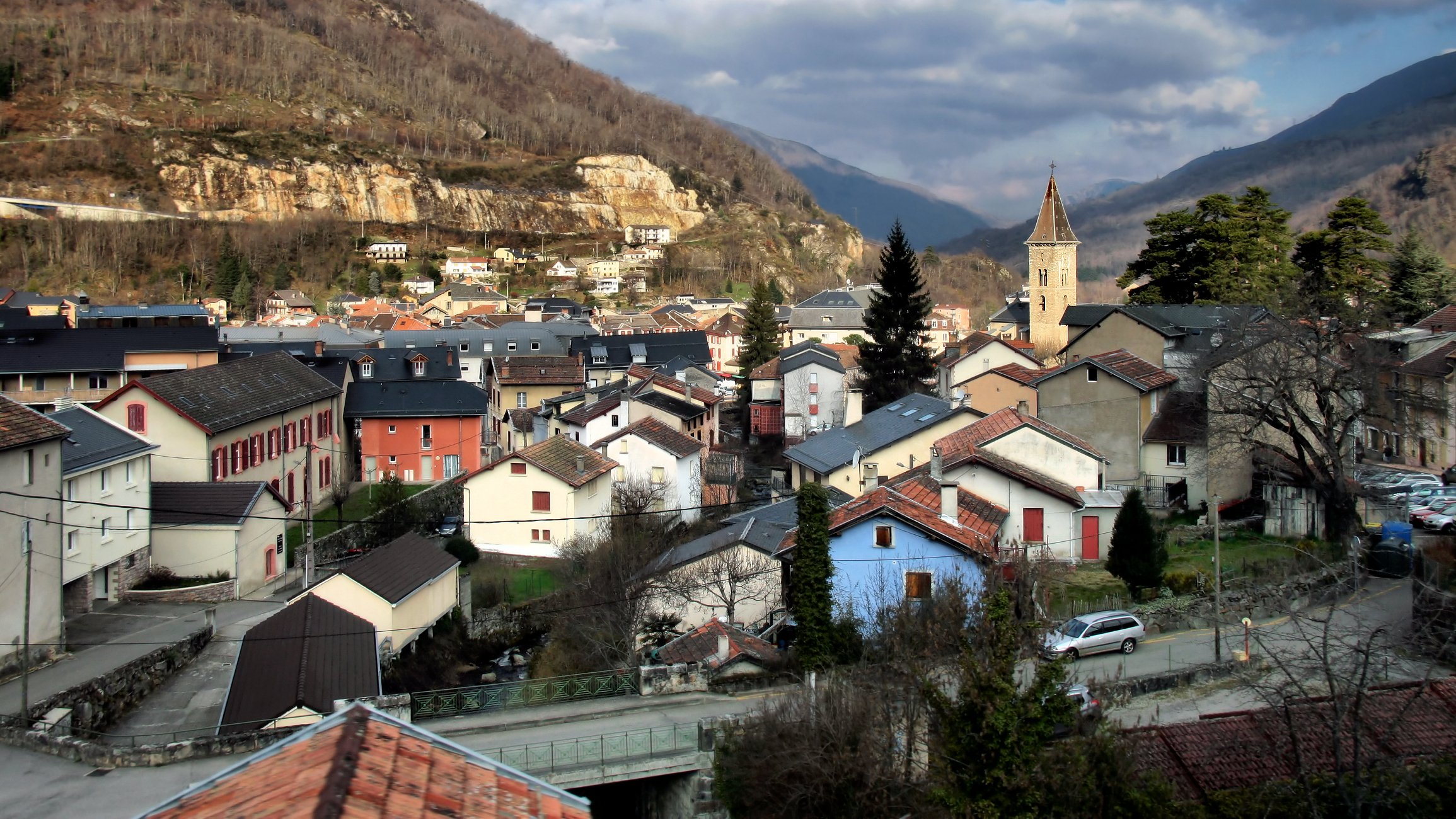 Ax-les-Thermes